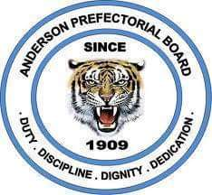 anderson prefectorial board was created by ex prefects in 2008. It was created by team of prefects from ipoh